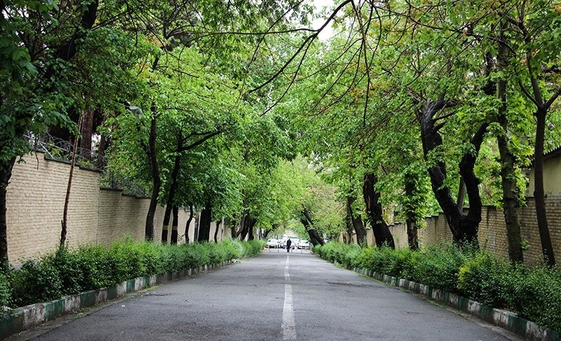 Sa'adat Abad